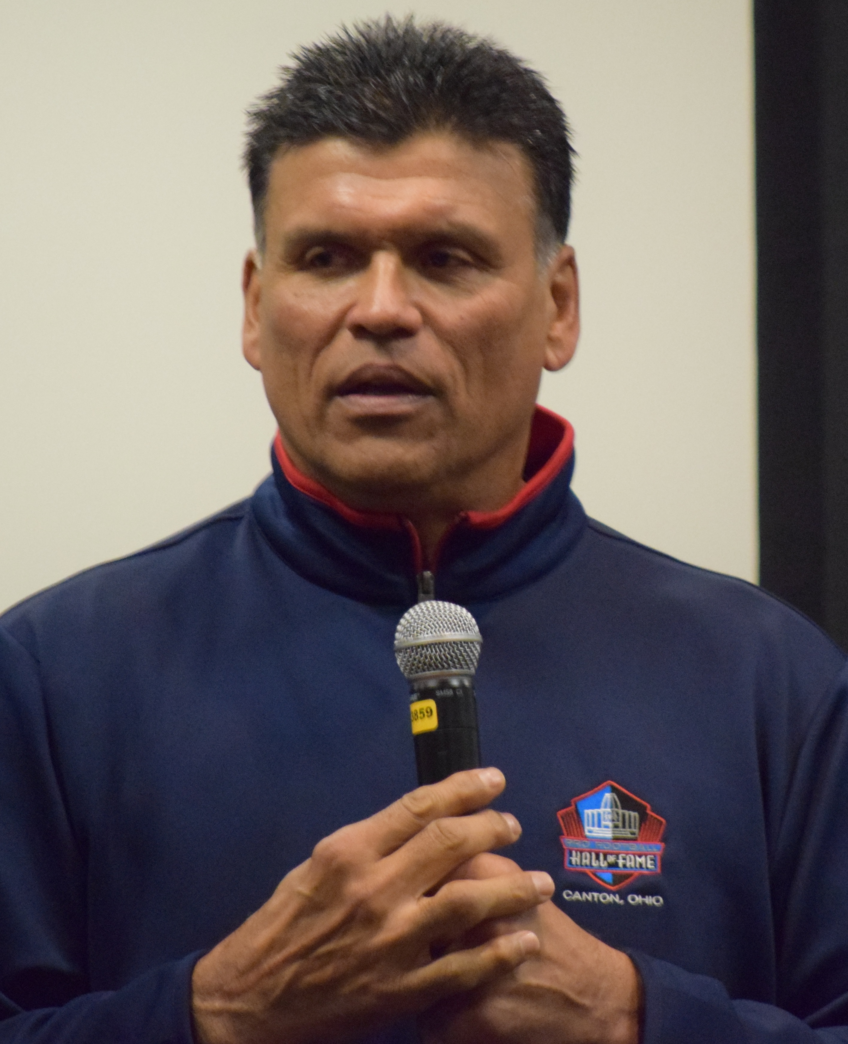 Pro Football Hall of Fame offensive tackle Anthony Munoz speaks to more than 300 National Combine football players during the Strength for Success panel session of the National Collegiate Scouting Association breakfast at the 2015 Army All-American Bowl.